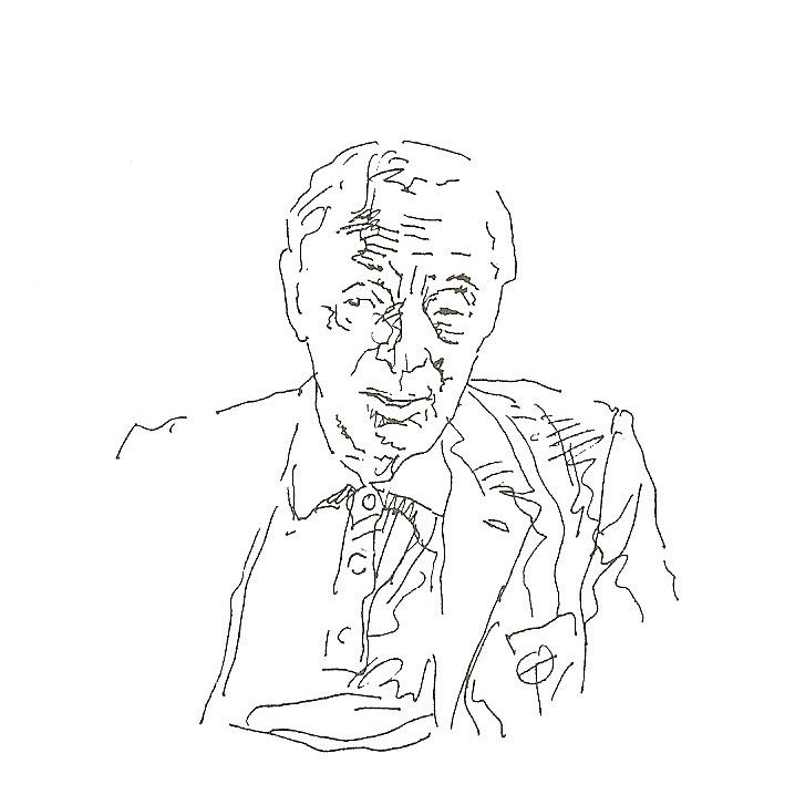 Saul Bellow. Drawing by Zoran Tucić used in the book of interviews, Razgovori (Conversations, 1999), by Dejan Stojanović.